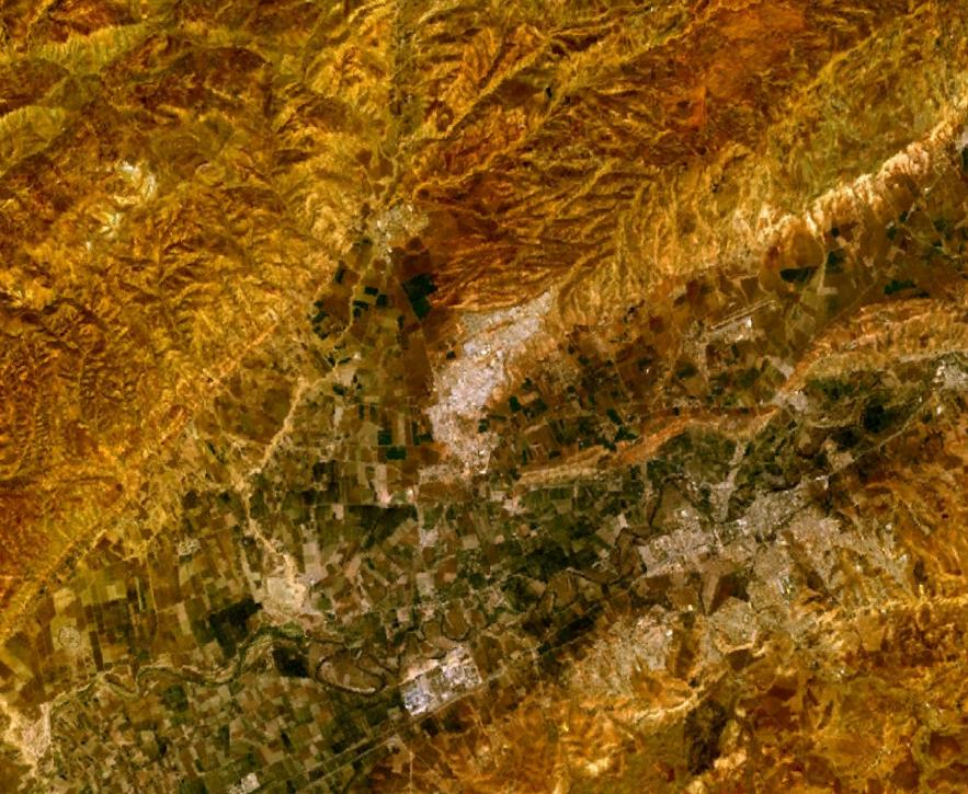 Ech Chettia, Algeria